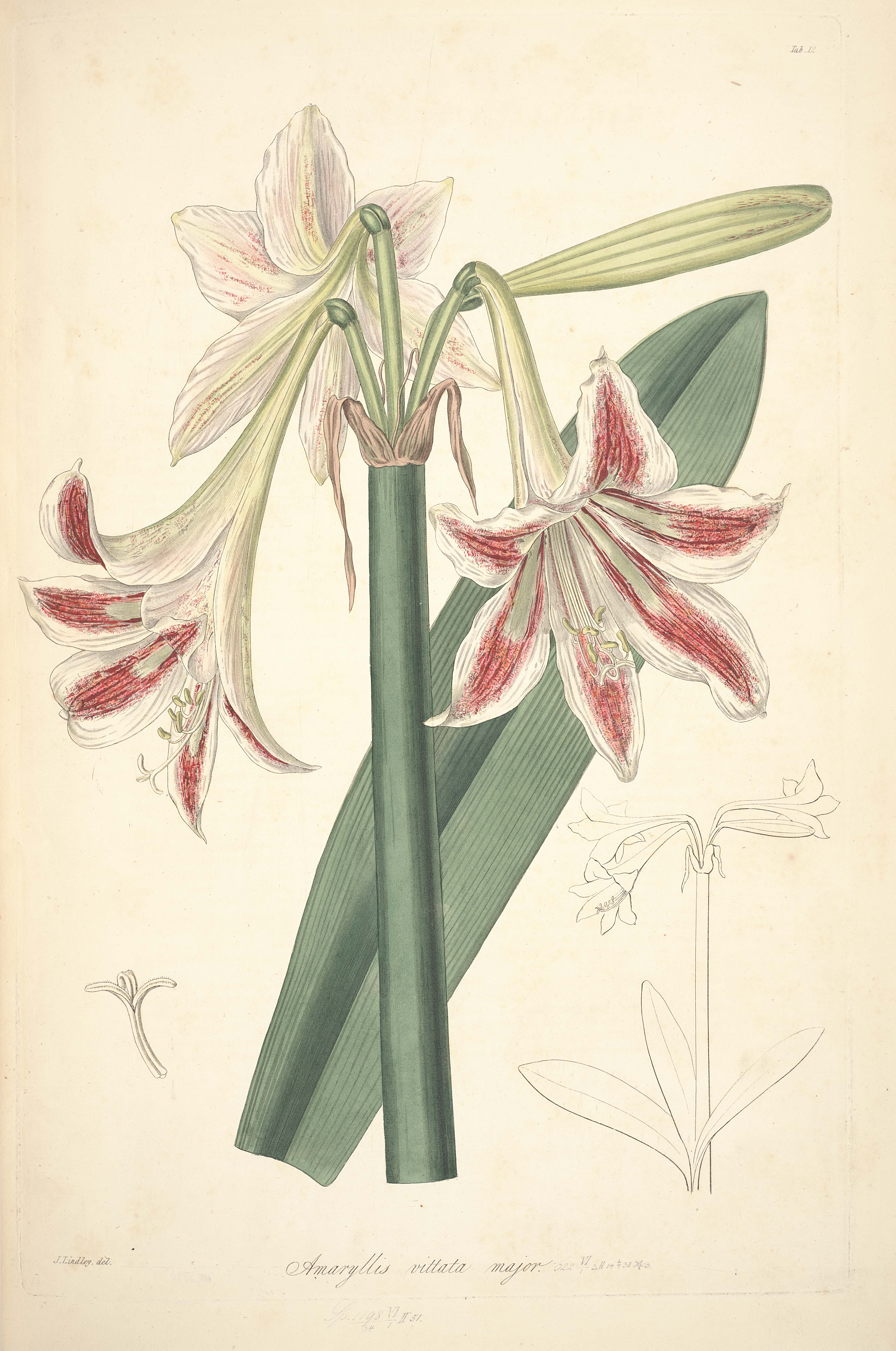 Illustration from John Lindley's "Collectanea botanica or, figures and botanical illustrations of rare and curious exotic plants"